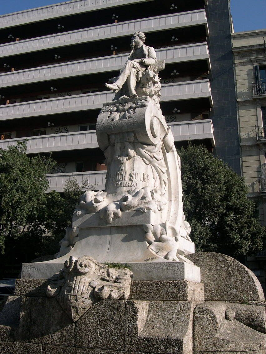 Monument to Serafí Pitarra (Frederic Soler i Hubert) in Pla del Teatre in la Rambla in Barcelona, by architect Pere Falqués and scuptor Agustí Querol